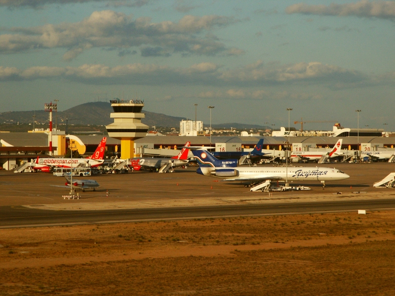 A photo of Faro airport made while passing over the runway.